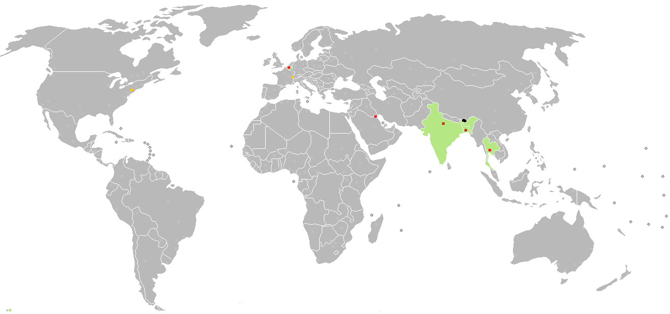 diplomatic missions of Bhutan